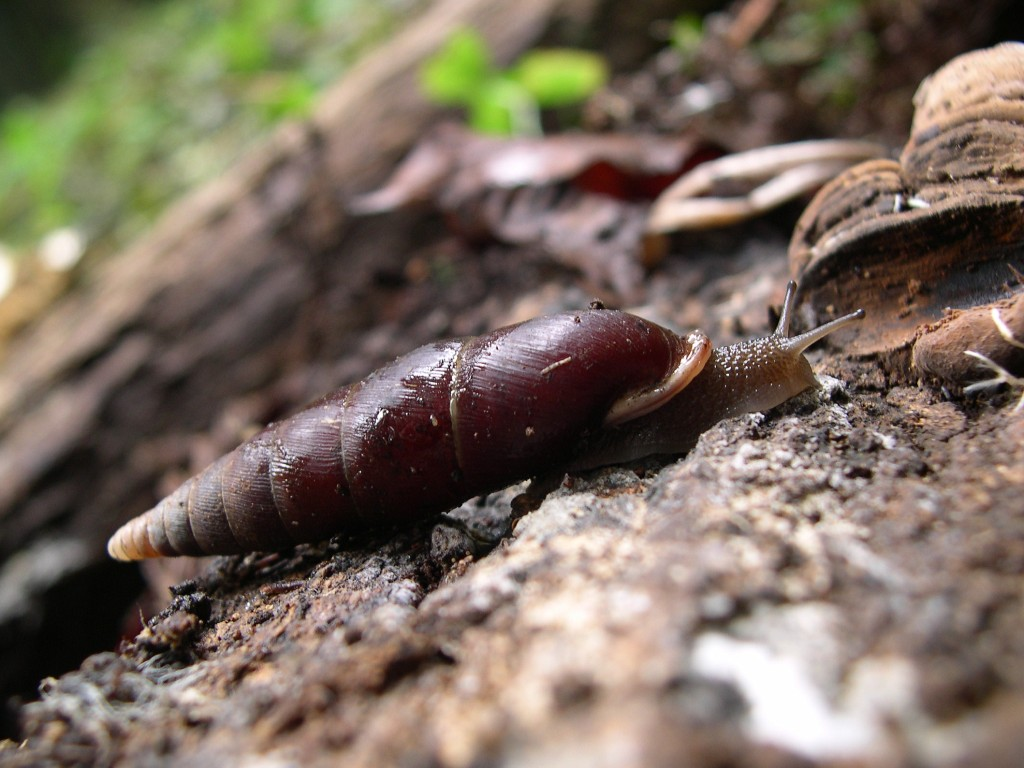 Megalophaedusa martensi (Martens, 1860) (Pulmonata: Stylommatophora: Clausiliidae: Phaedusinae) . The largest species of the family Clausiliidae (Door Snails) in the world. Loc: Hamamatsu, Shizuoka Prefecture, Japan. ja: オオギセル （キセルガイ科：アジアギセル亜科）はキセルガイ科の世界最大種。 場所：浜松市